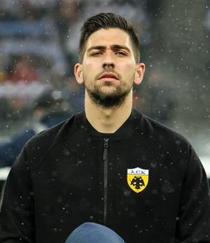 Dmytro Chygrynskyi, Anastasios Bakasetas, Rodrigo Galo Brito